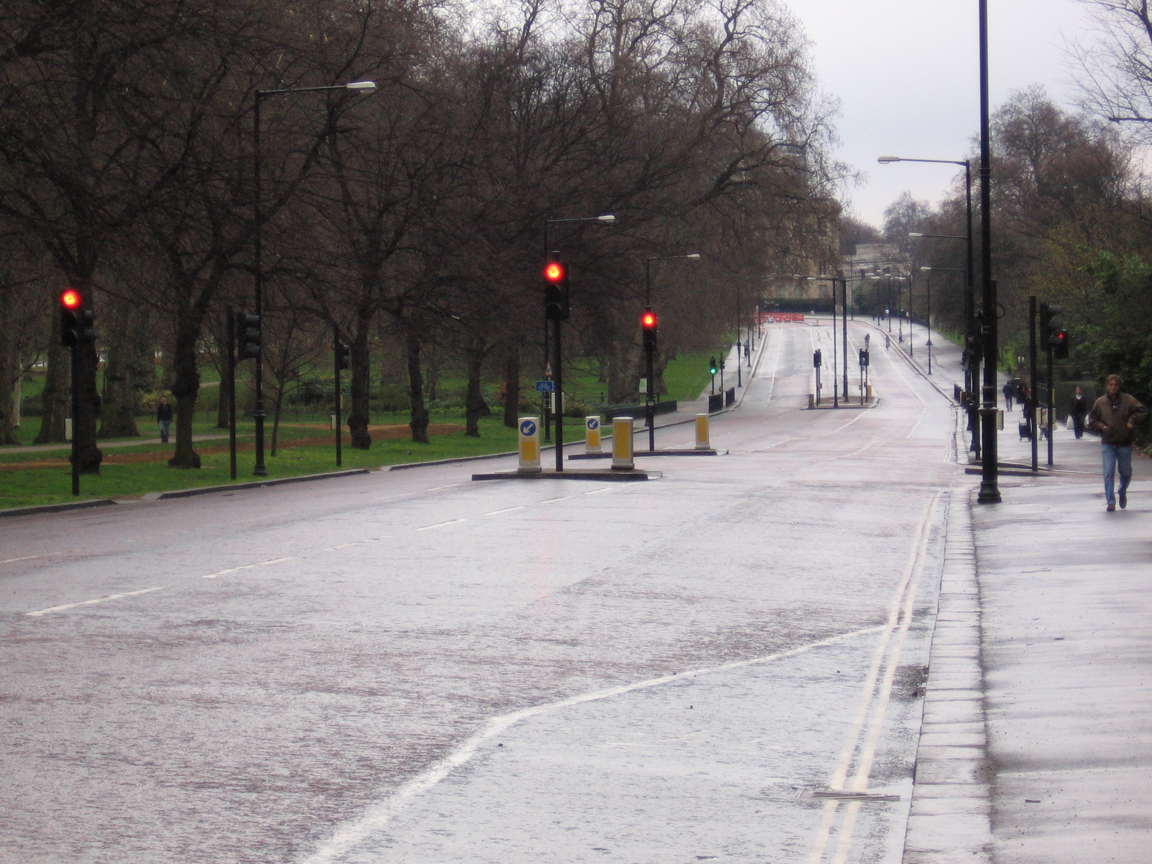 Road near Hyde Park, London